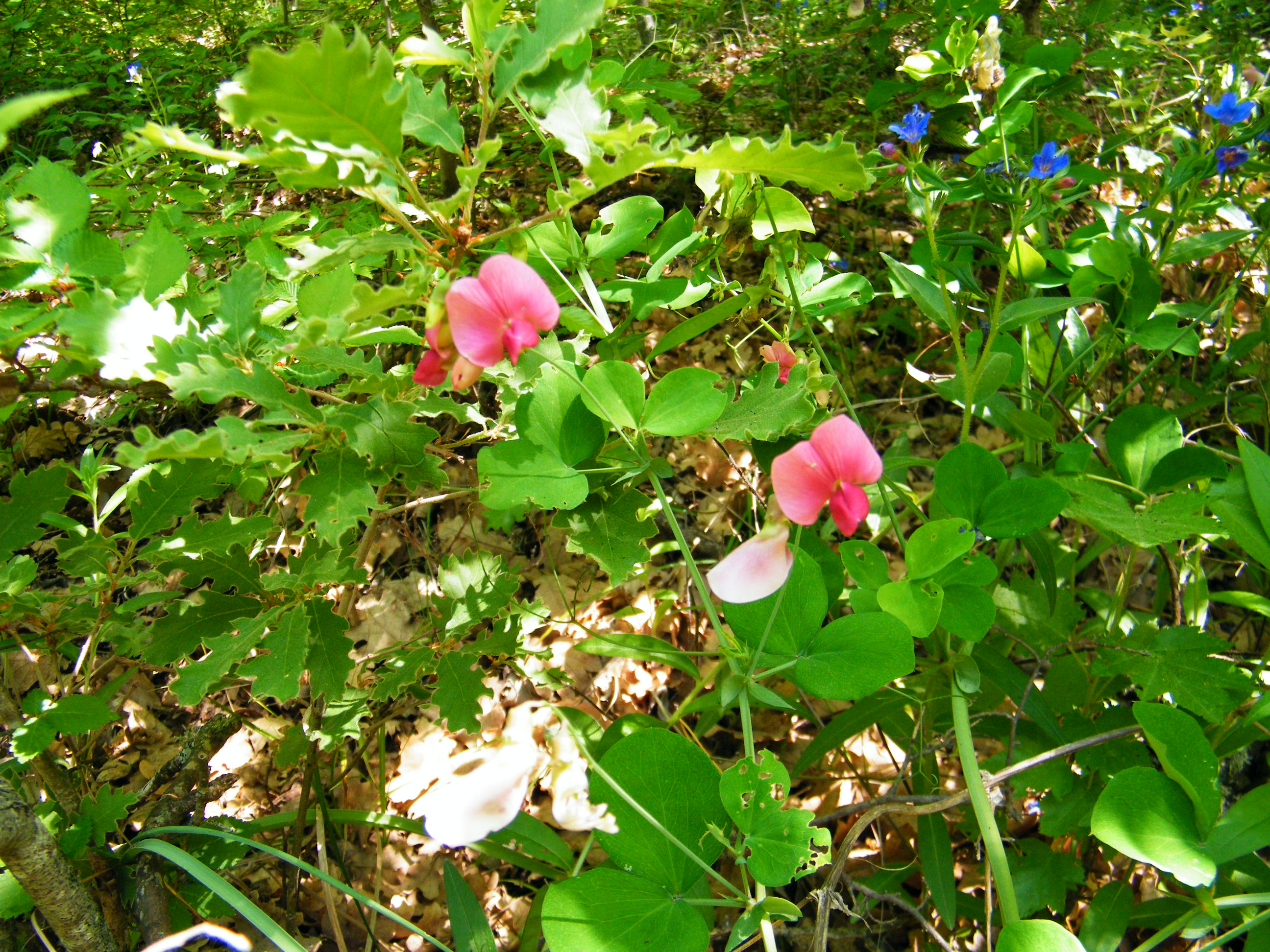 Lathyrus rotundifolius in Laspi